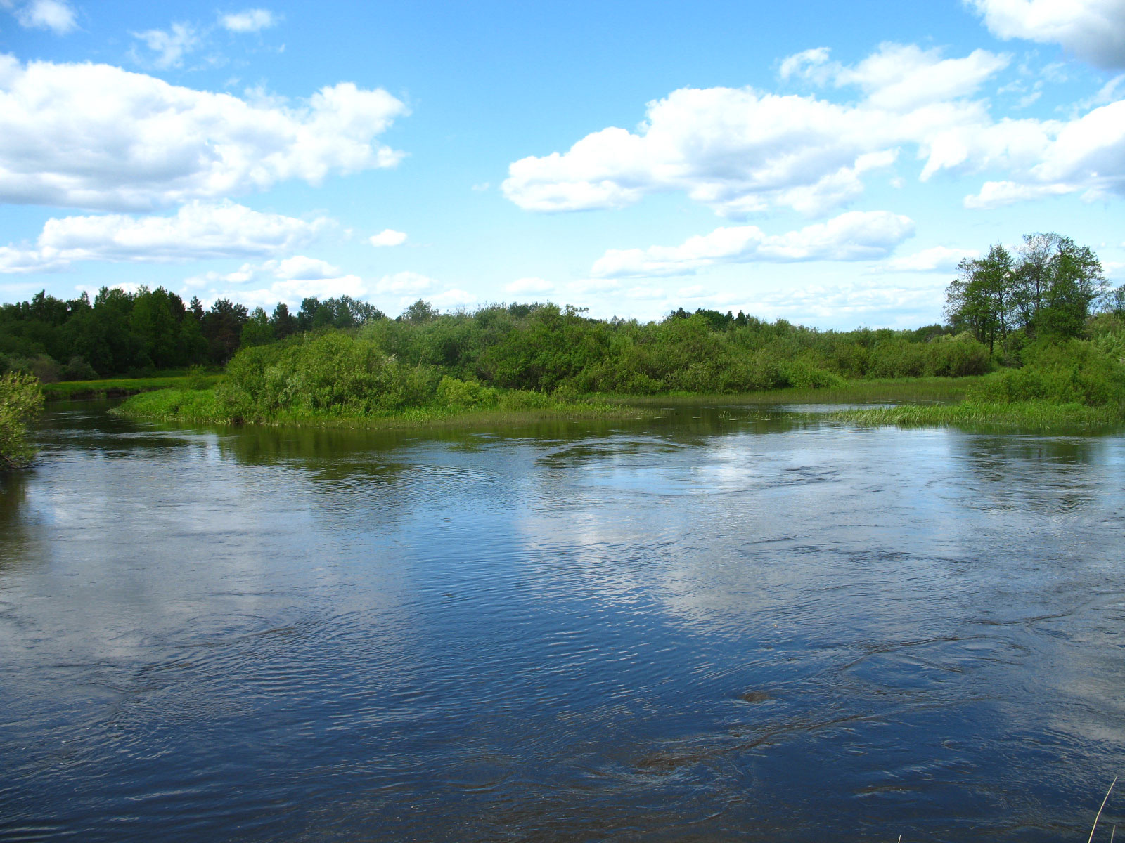 Drysa river near Pryсhaby village, Belarus.